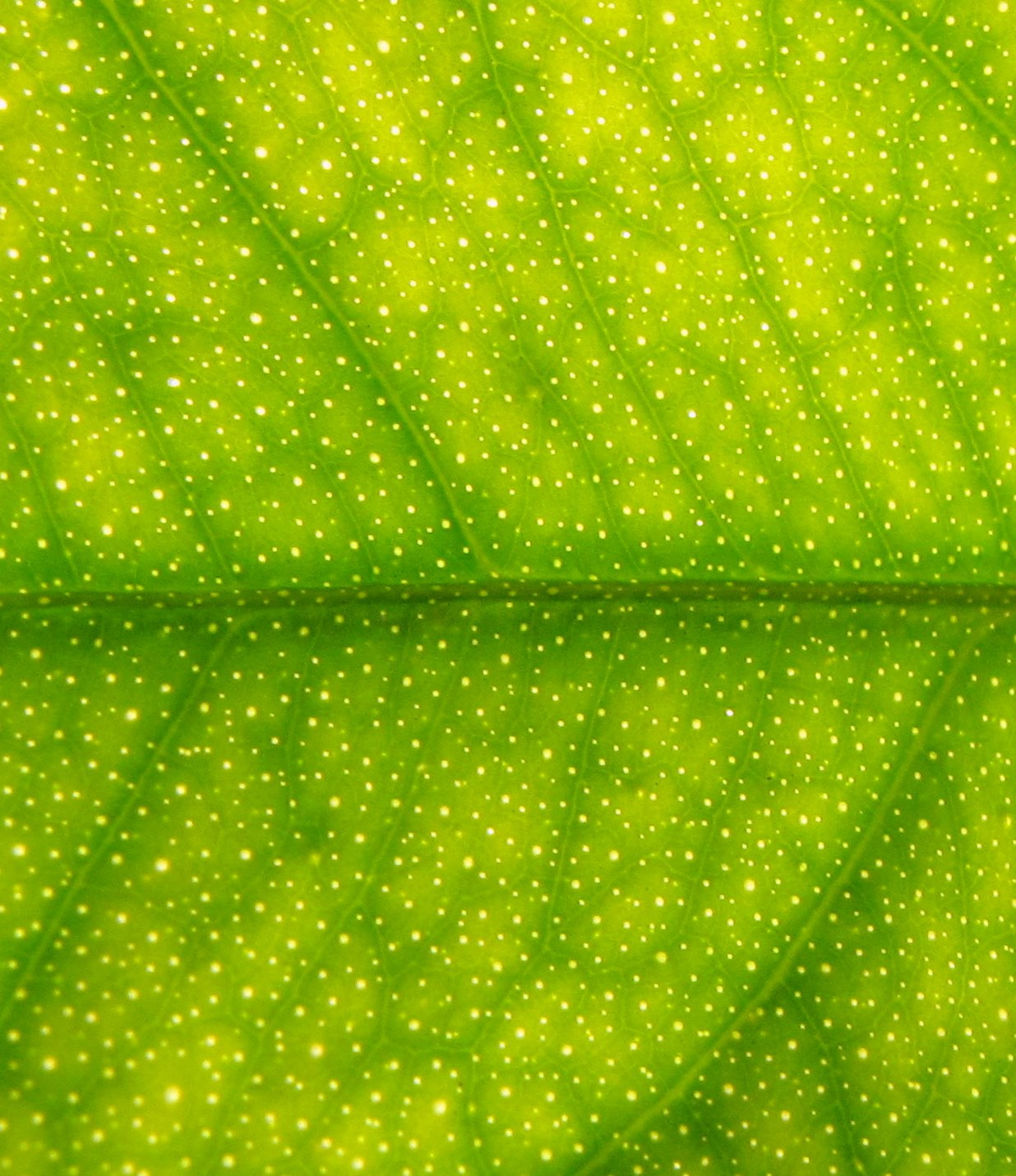 This image shows close detail of the citrus leaf. It includes veins, pores, and surface of the leaf.